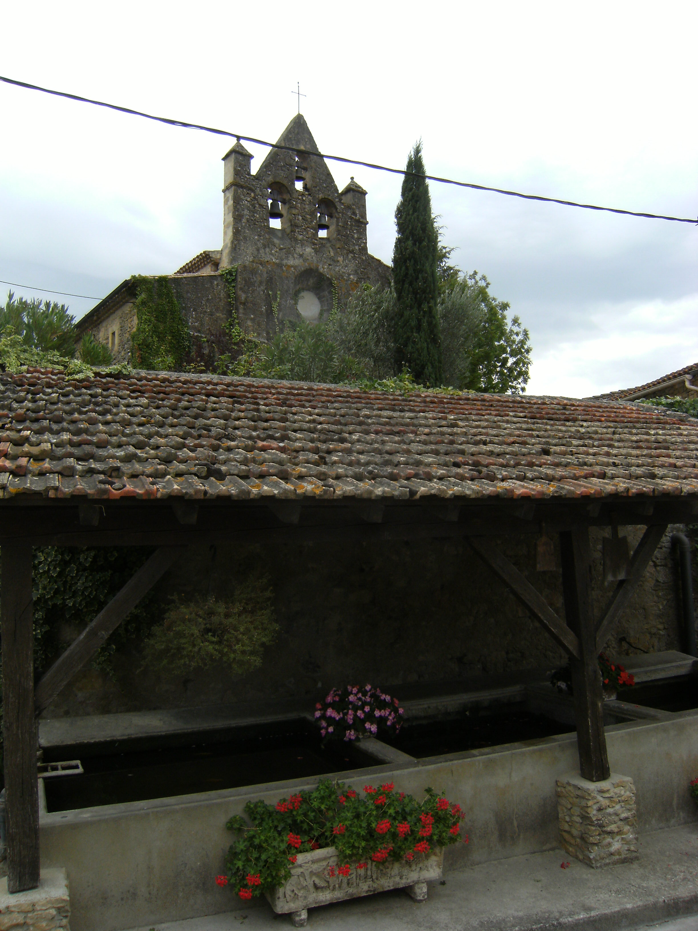 Central Payra-sur-l'Hers, Aude.